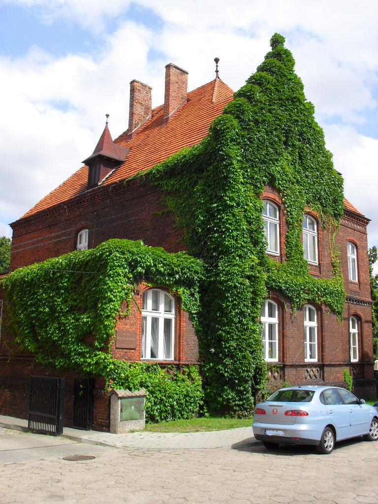 Parish house, St. Mary church in Ostrów Wielkopolski